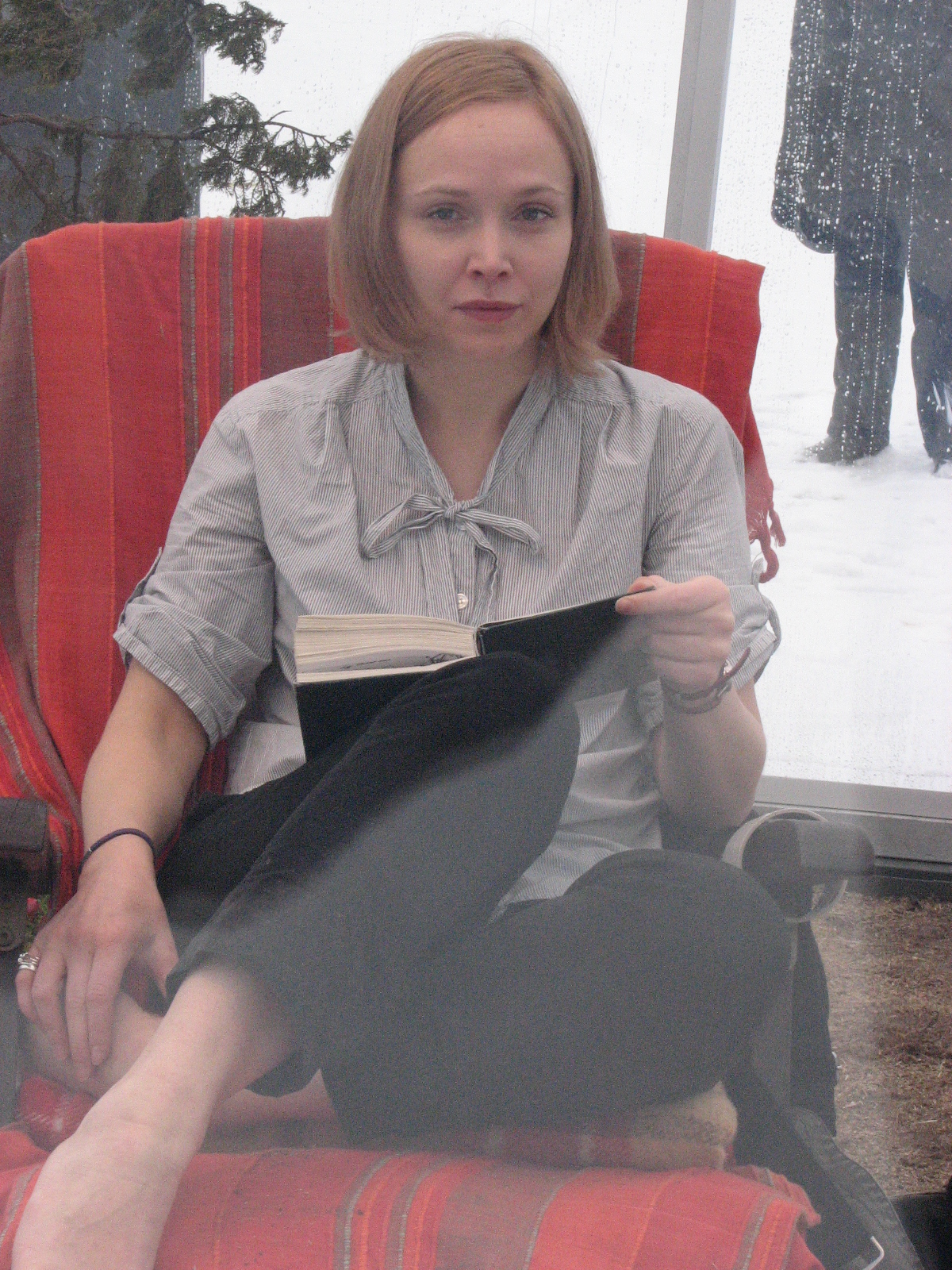 Kai Lobjakas is Estonian historian of design.